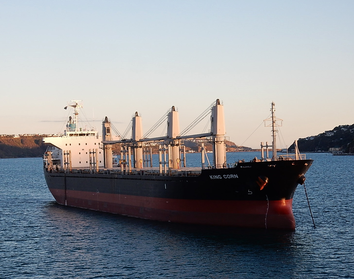 At Anchor in Wellington Harbour